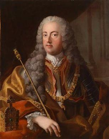 Portrait of Emperor Francis Stephen I